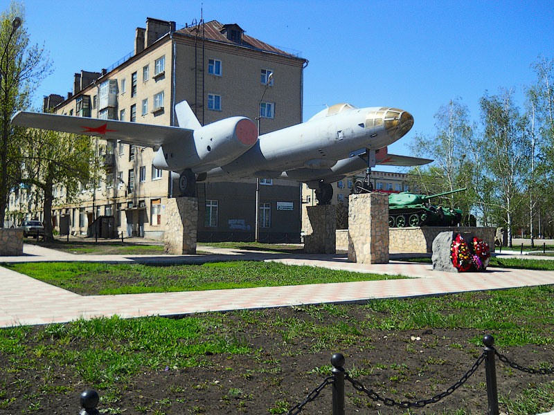 Ilyushin Il-28 monument in Petrovsk.